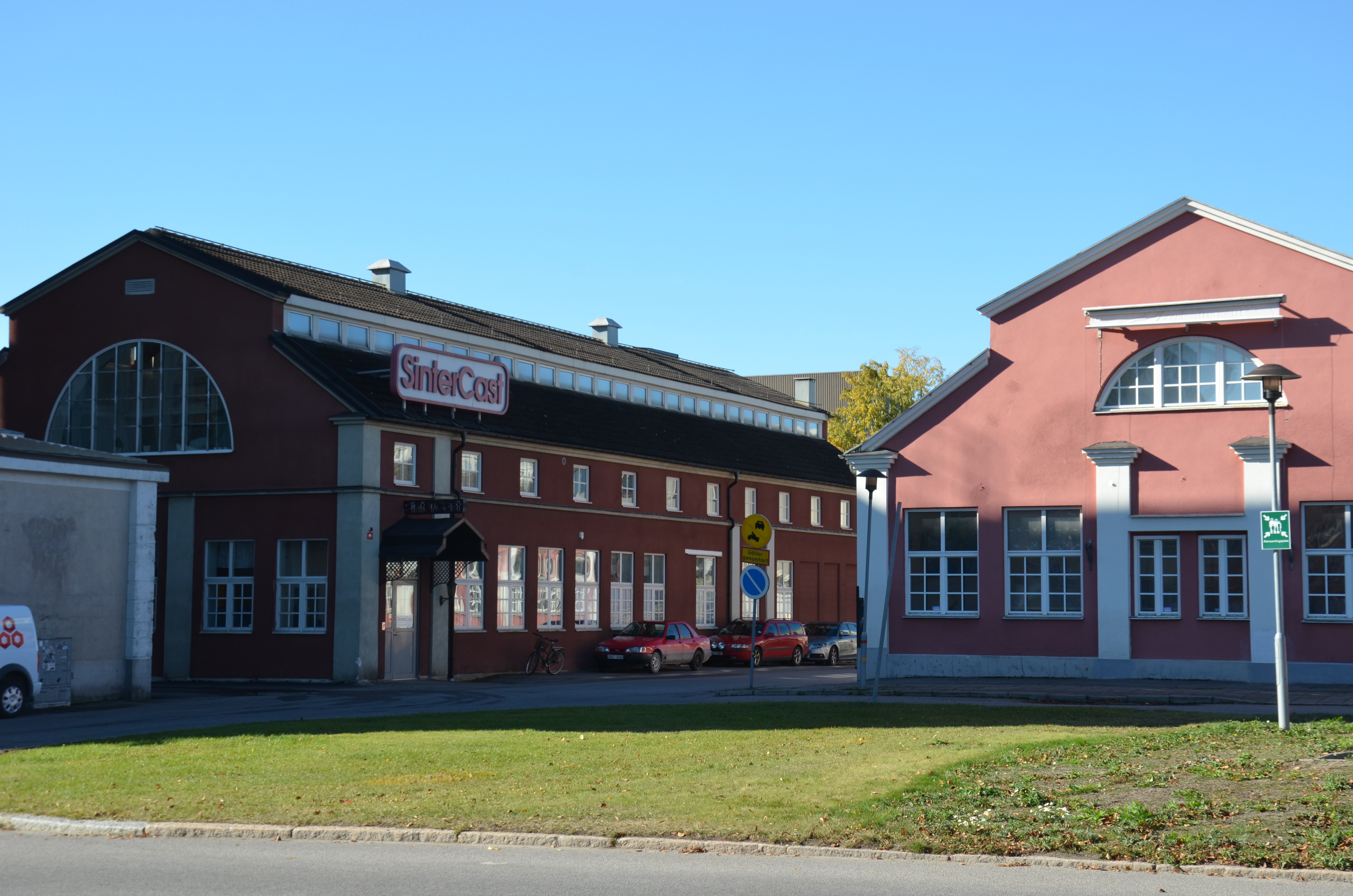 Sintercast AB, Katrineholm